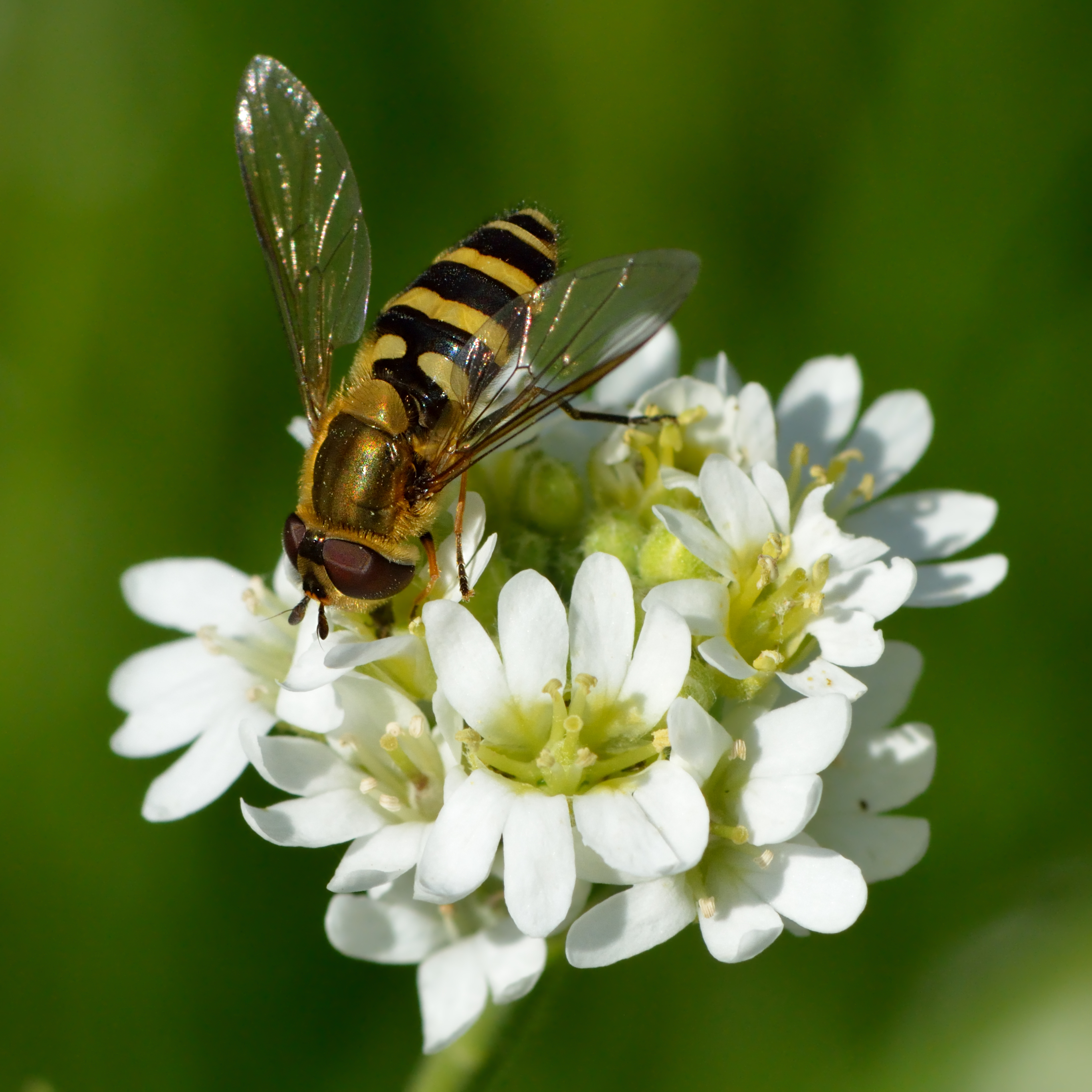 Hoverfly Syrphus ribesii on the hoary alyssum (Berteroa incana). Tallinn, Estonia.